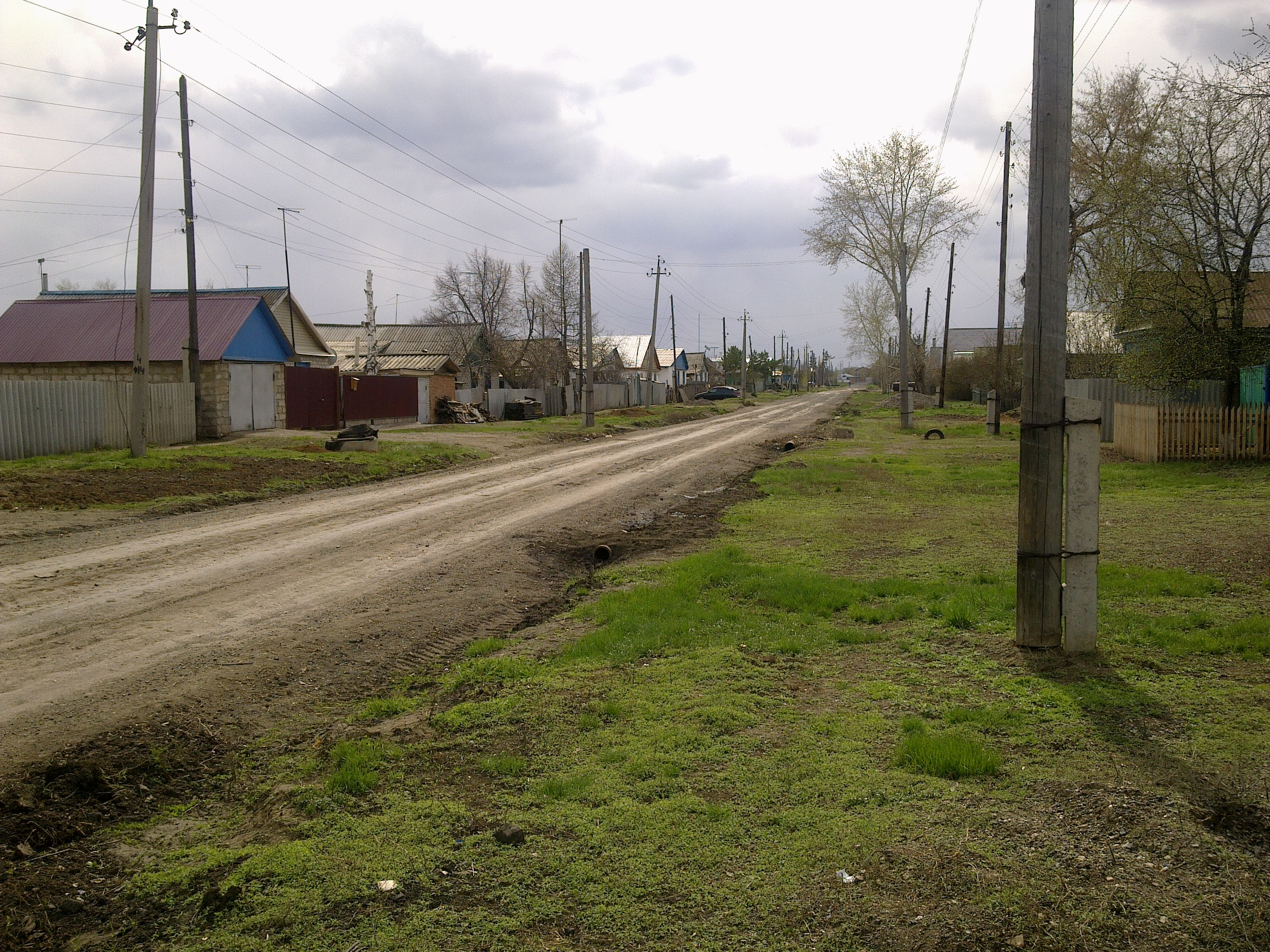 Saraktash, Chkalova st.